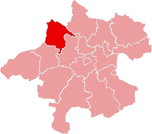 Location of Bezirk Schaerding within the Land of Upper Austria